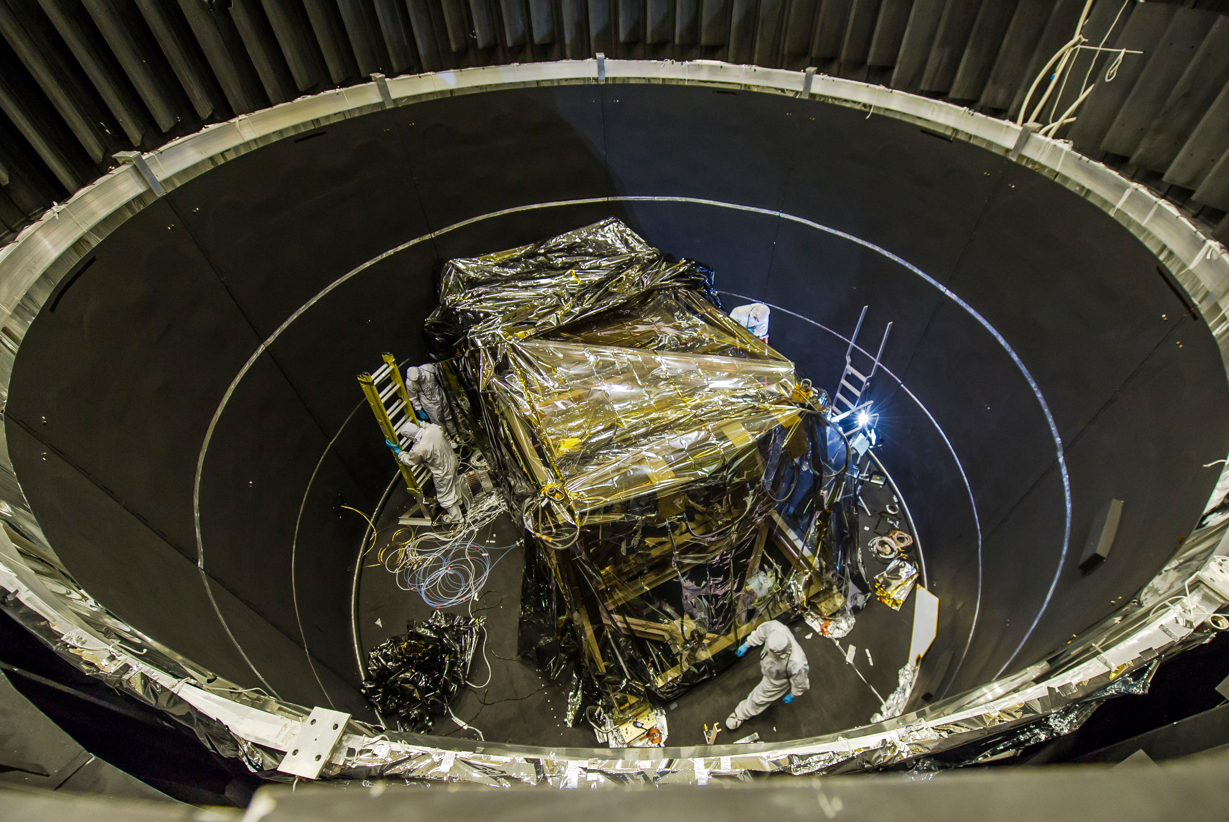 Engineers work with the Integrated Science Instrument Module for the James Webb Space Telescope inside the thermal vacuum chamber at NASA's Goddard Space Flight Center in Greenbelt, Md. The ISIM and the ISIM System Integration Fixture that holds the ISIM Electronics Compartment was recently lifted inside the chamber for its first thermal vacuum test. In this image one of the ISIM's many protective blanket layers is pulled back. The blankets will be removed during testing. Image credit: NASA/Chris Gunn NASA image use policy. NASA Goddard Space Flight Center enables NASA’s mission through four scientific endeavors: Earth Science, Heliophysics, Solar System Exploration, and Astrophysics. Goddard plays a leading role in NASA’s accomplishments by contributing compelling scientific knowledge to advance the Agency’s mission. Follow us on Twitter Like us on Facebook Find us on Instagram